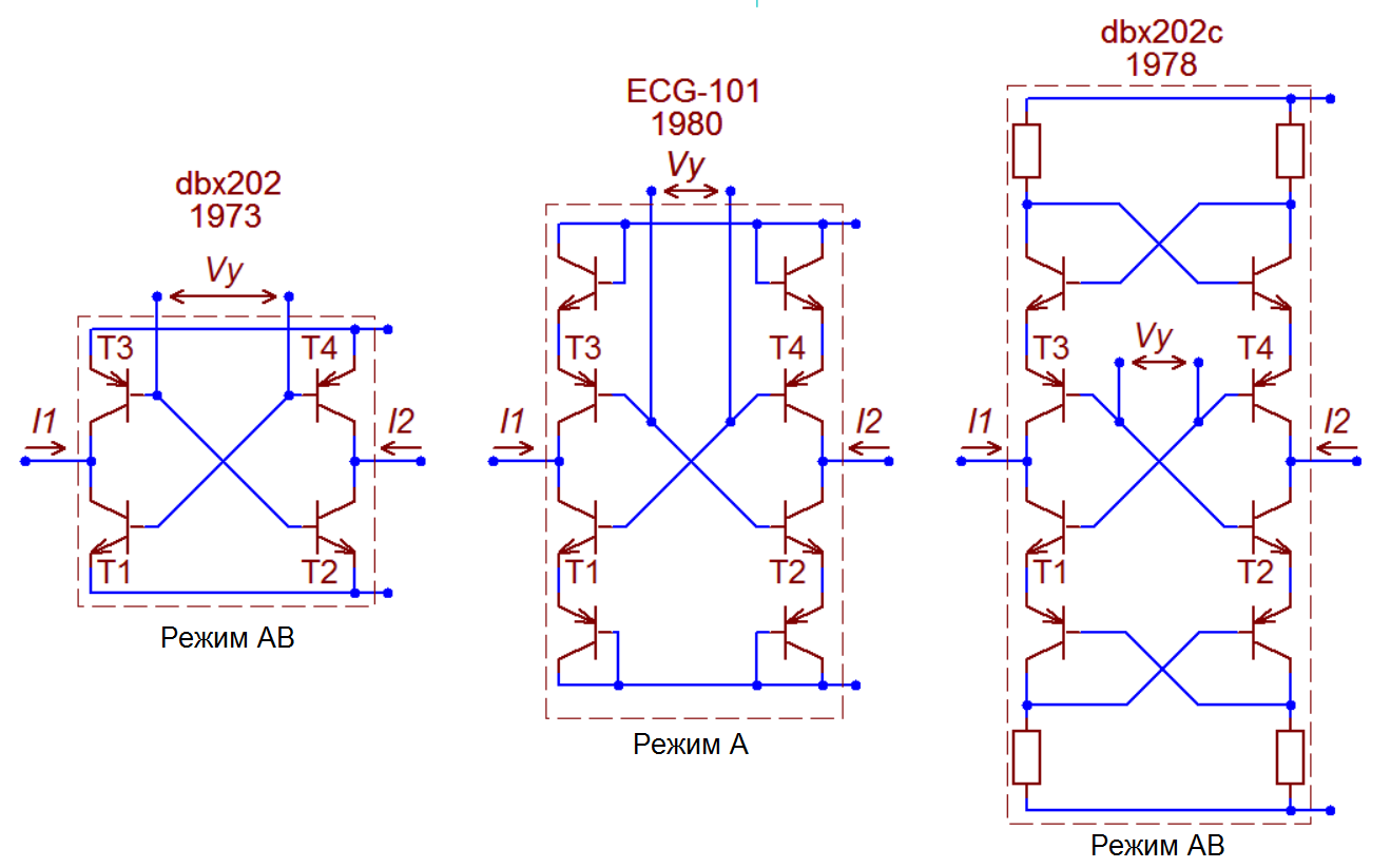 The original Blackmer core, the Allison/Valley class A derivative, and the core with log error cancellation